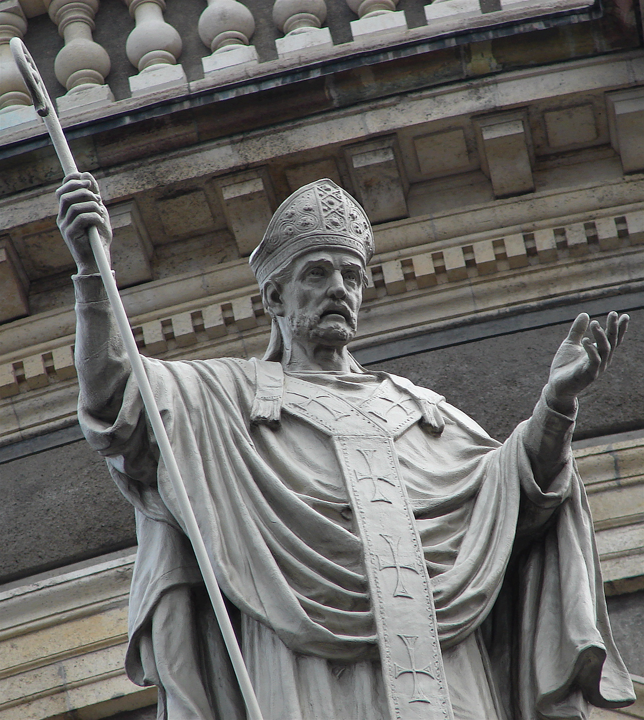 By C.C. Peters. Danish sculptor (b.1822-d.1899)